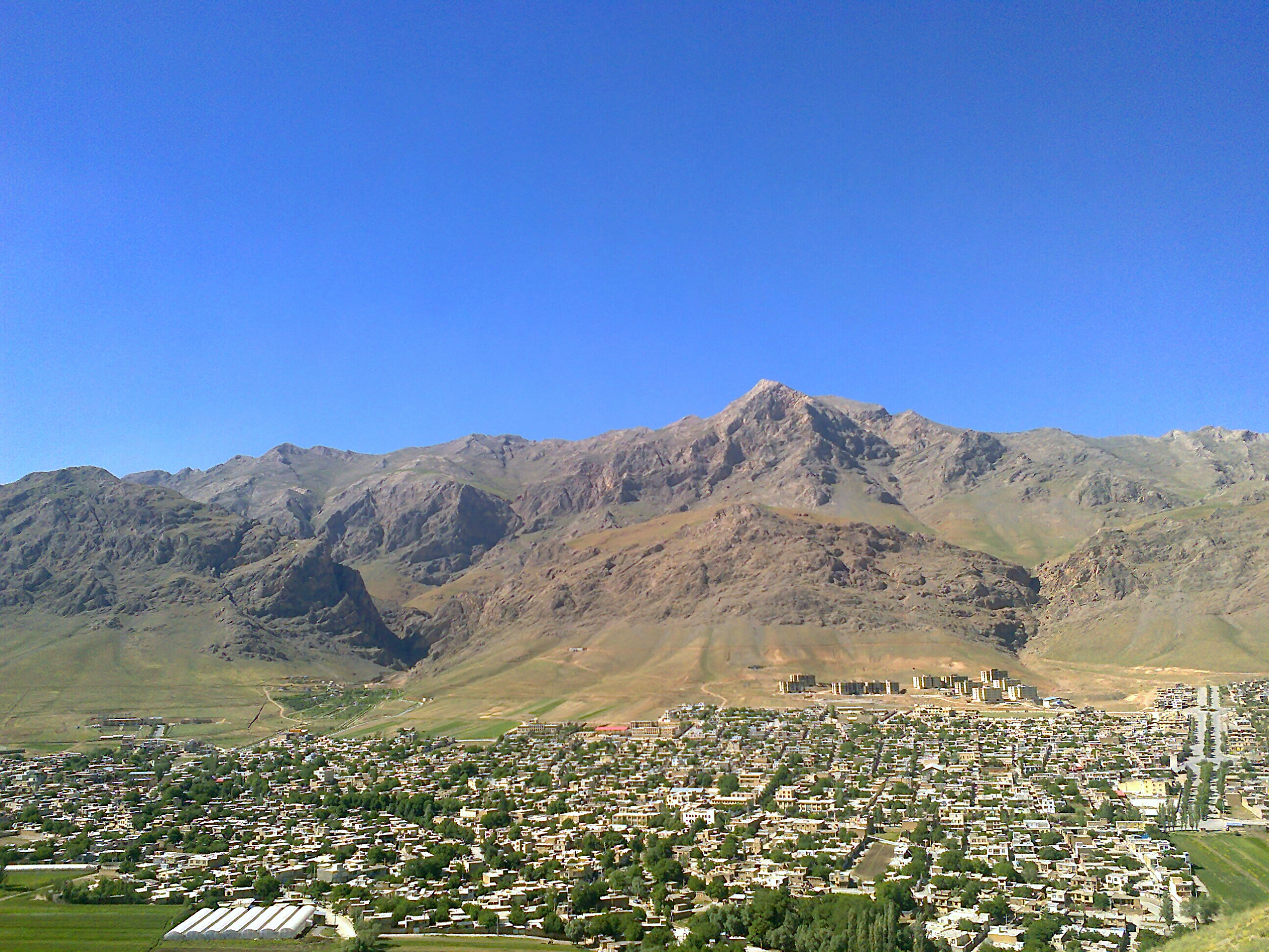 Fereydunshahr